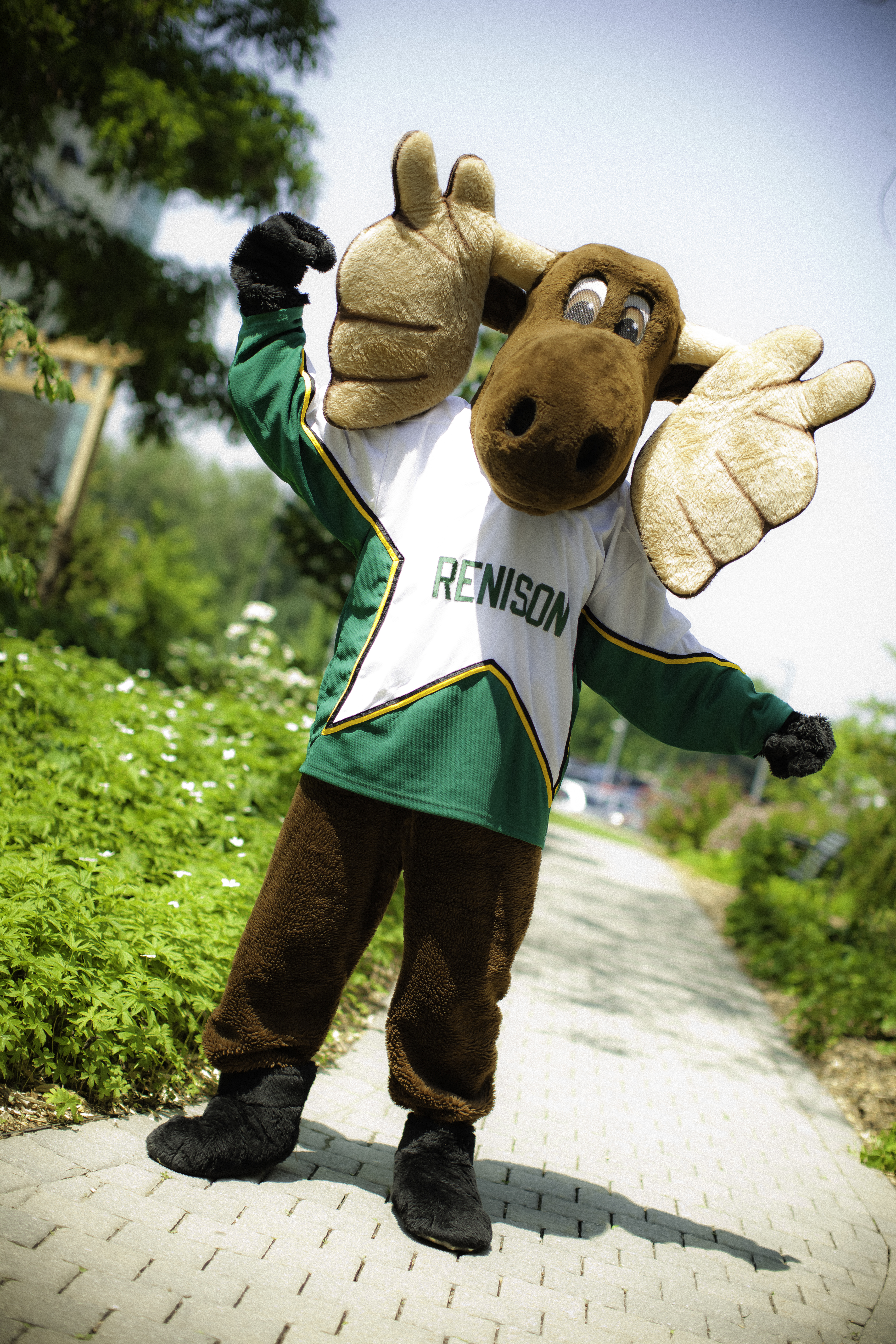 Reni Moose in Garden